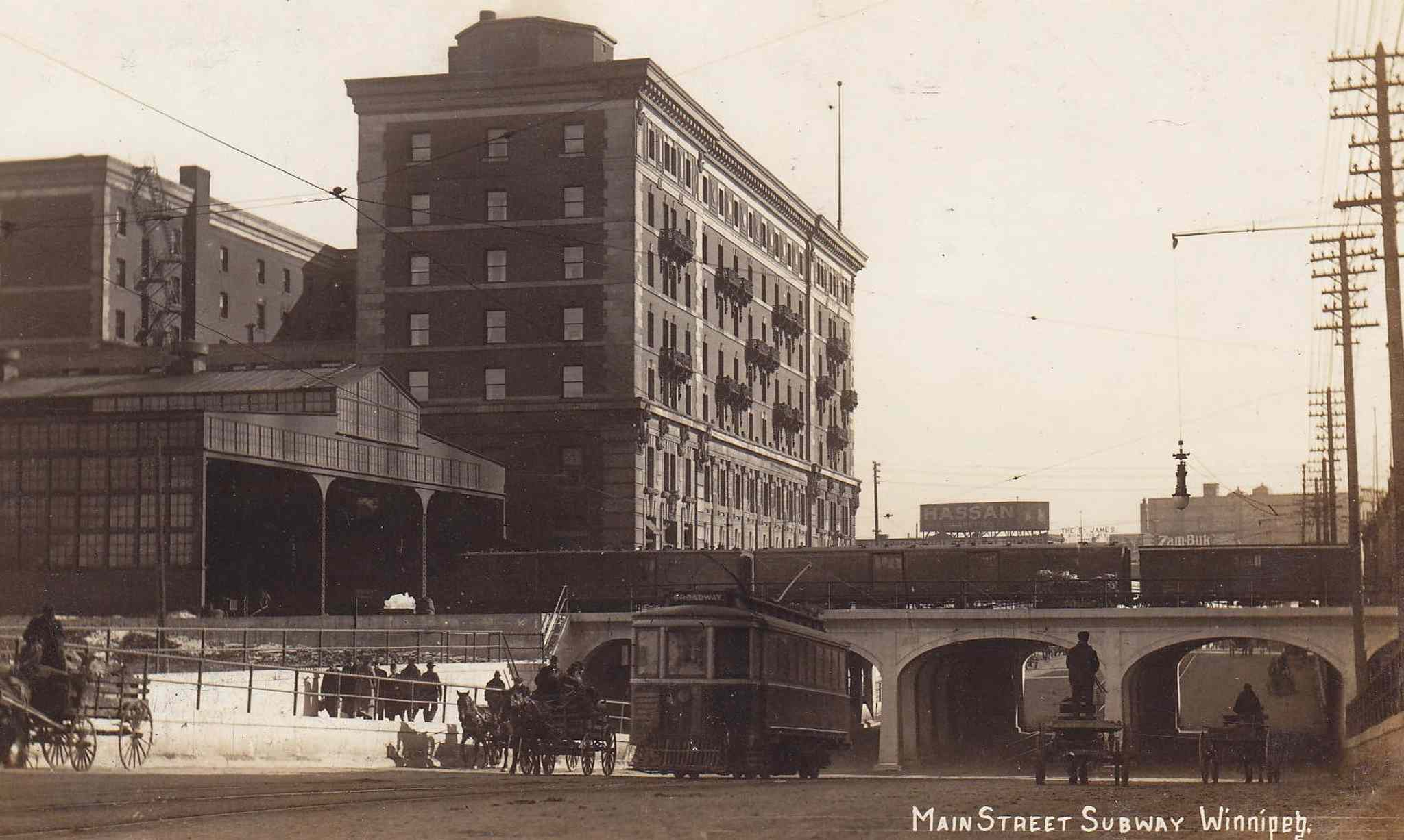 Main Street Subway, Winnipeg, looking south, circa 1910, with the Royal Alexandra Hotel on the other side of the subway.